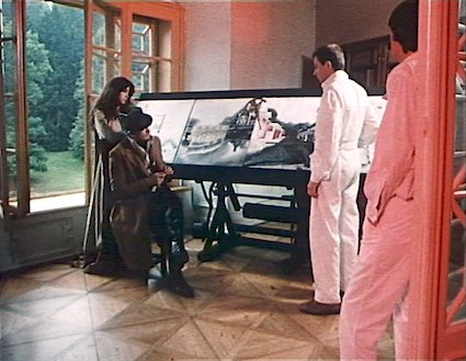 Baron Zedlitz plans the new working-class housing estate